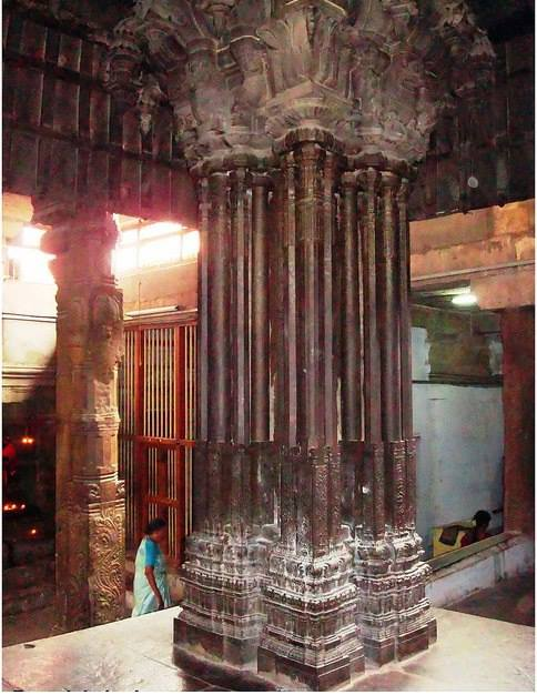 திருநெல்வேலி நெல்லையப்பர் கோயில், ஒரே கல்லாலான இசைத்தூண்கள்